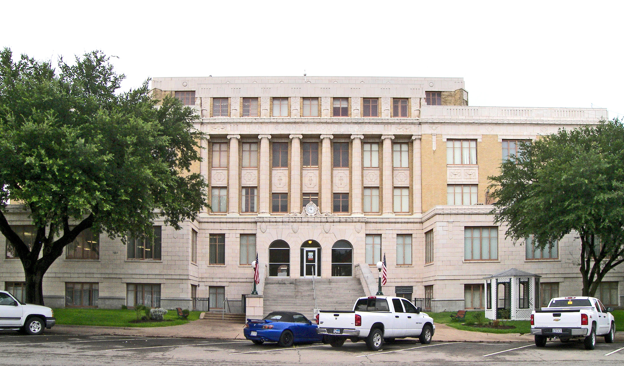 The Hunt County, Texas courthouse located in Greenville, Texas, United States. The building was listed on the National Register of Historic Places on June 21, 1996.